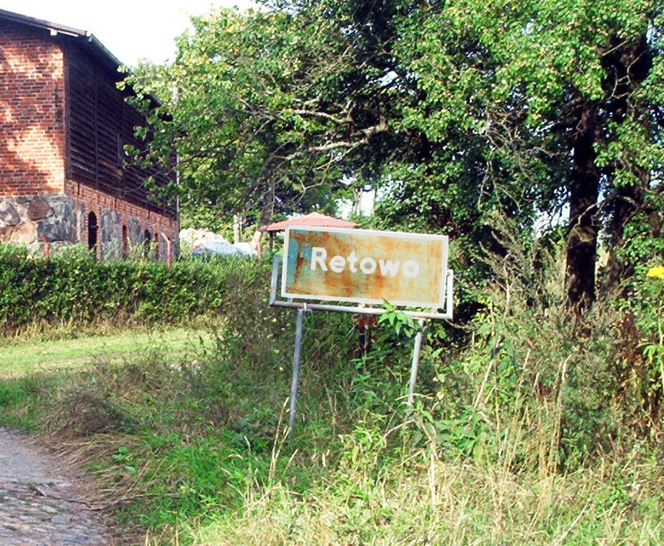 Retowo